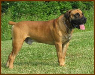 2 year old male stud Boerboel